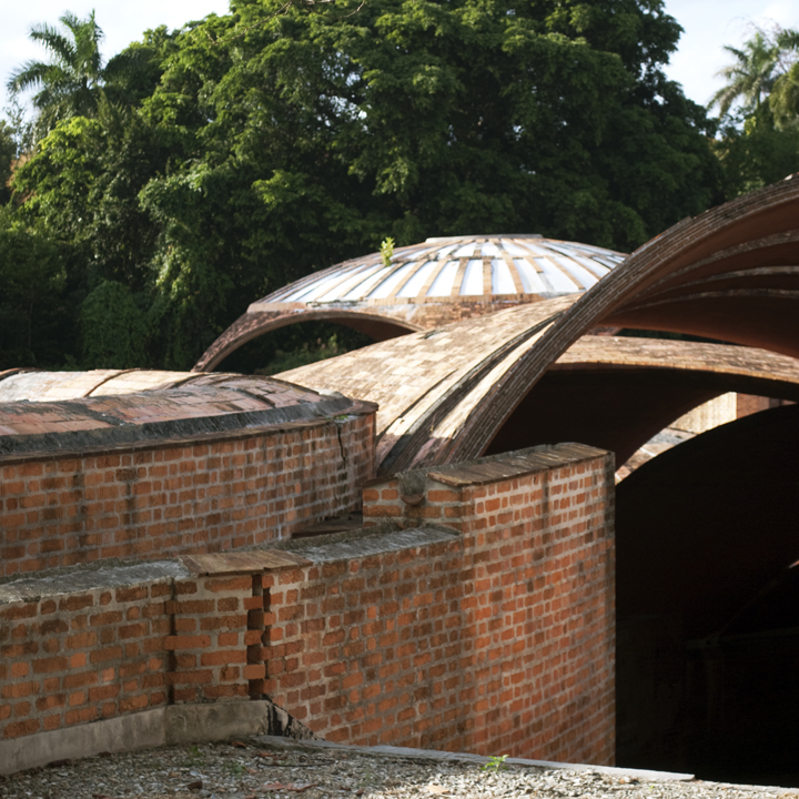 View towards entrance from the School of Modern Dance